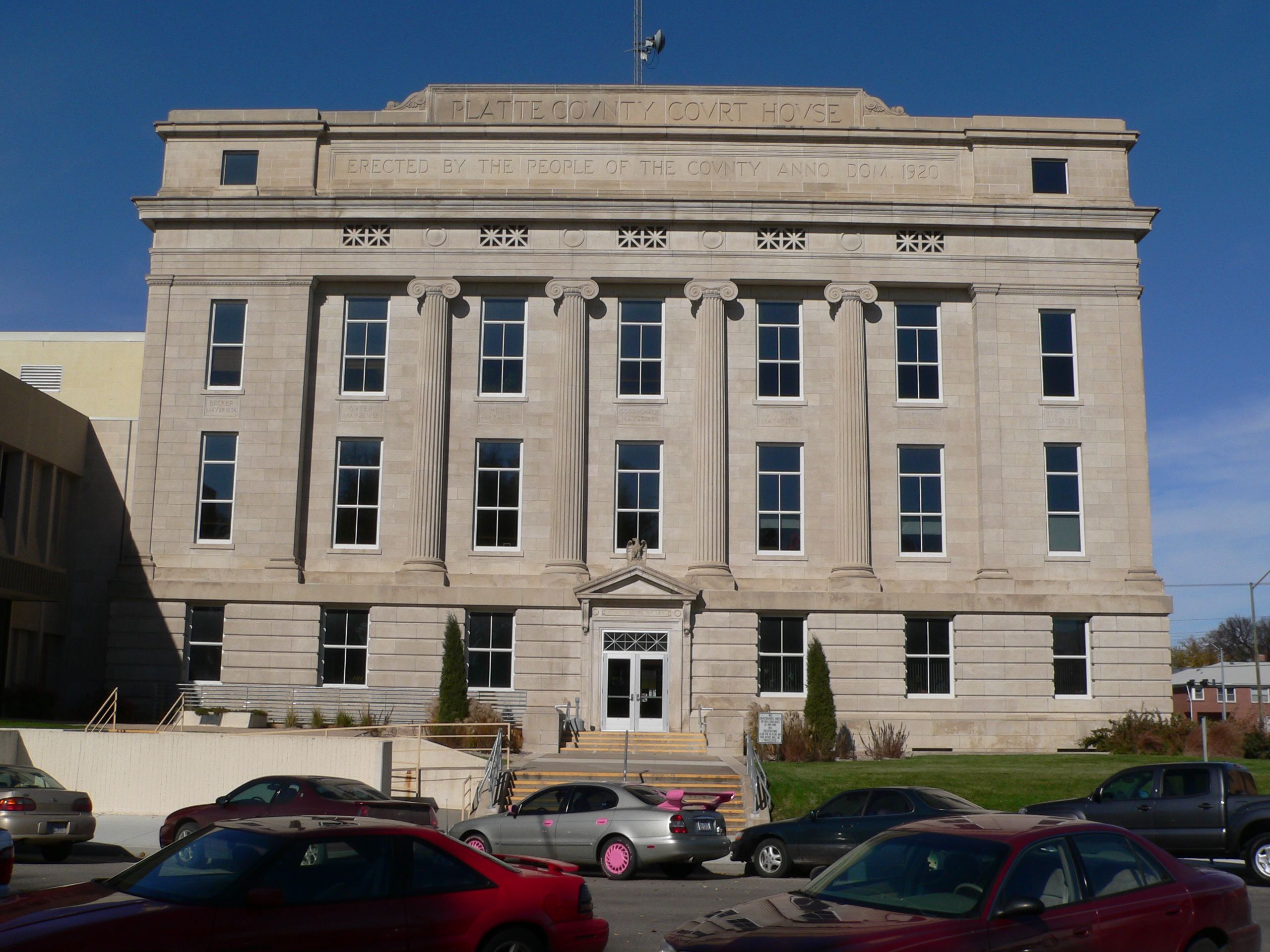 The Platte County Courthouse at 2610 14th St, Columbus, Nebraska. The building was constructed in 1920. It was designed in the Classical Revival style by architect Charles Wurdeman. The building is on the National Register of Historic Places. With a newer addition, it continues to serve as the courthouse.